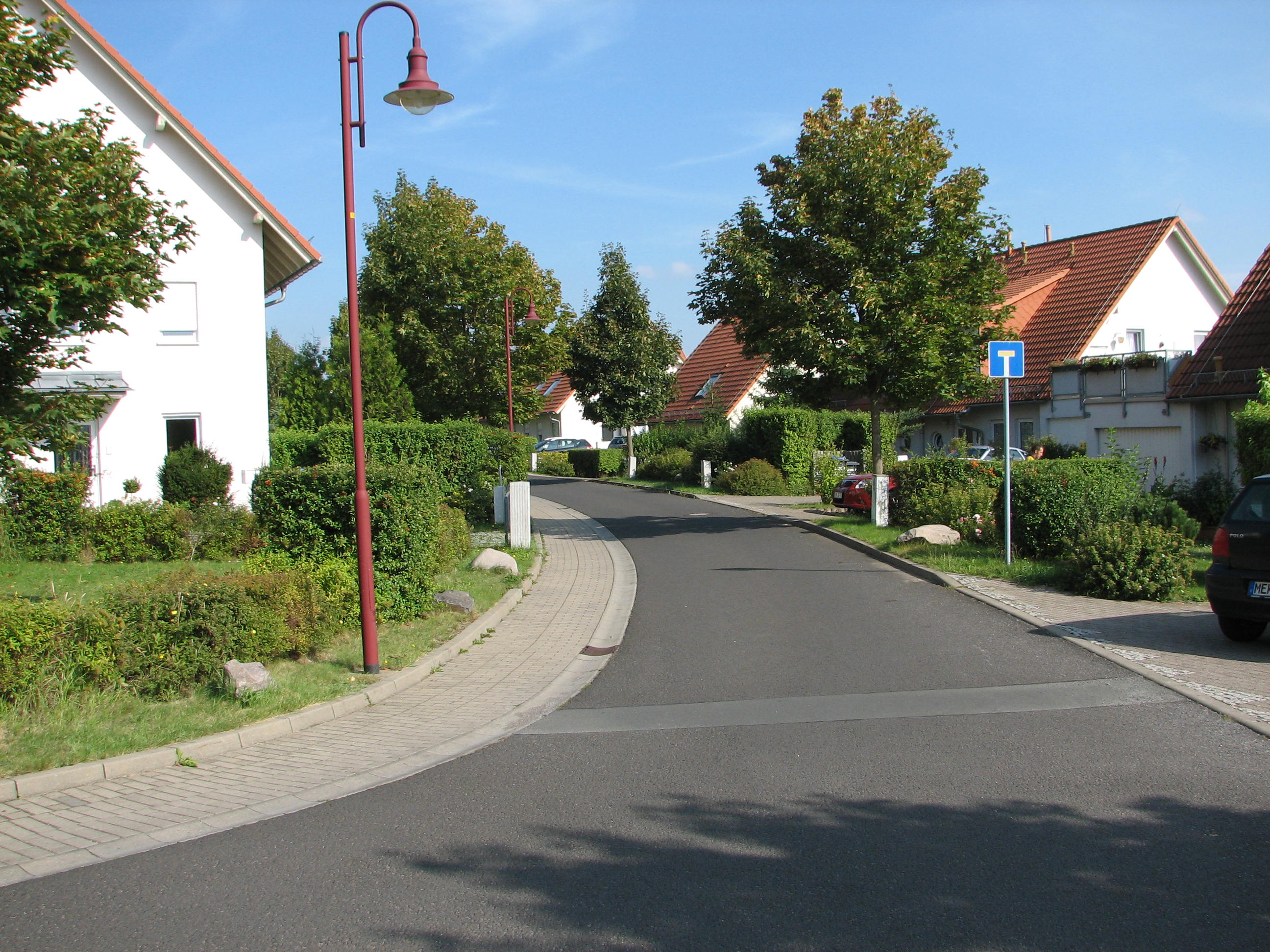 Am Weinberg in Freital